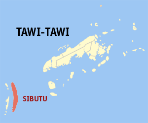 Map of the Tawi-Tawi showing the location of Sibutu